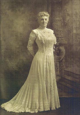 Mrs. Pickett wrote and spoke about the Battles of Gettysburg and the Monitor and the Merrimac, famous people she had met, stories of her youth in Nansemond County, Virginia and numerous other topics. This image was made after 1910 near the time she stopped touring as a speaker.